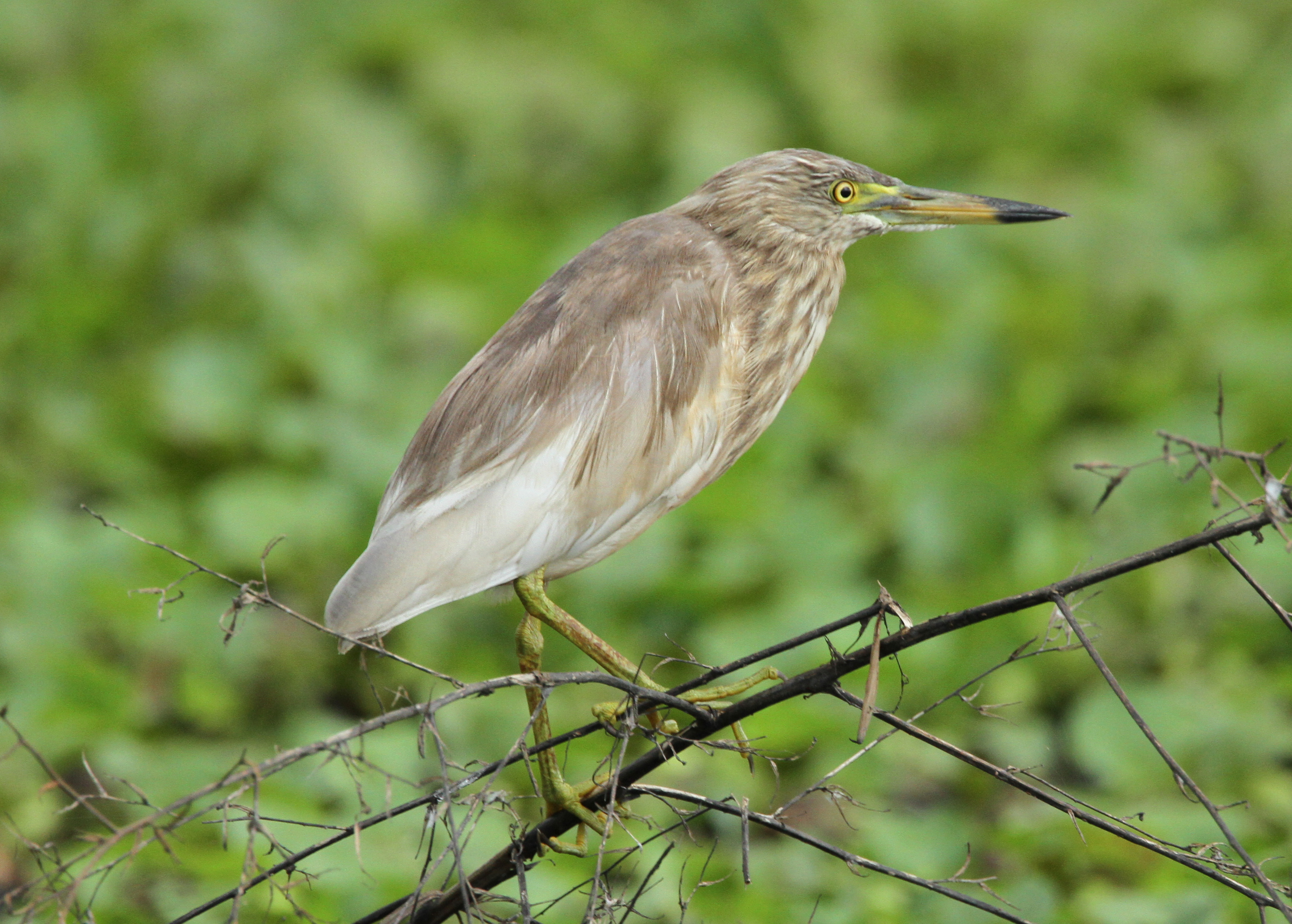 An Indian Pond Heron in breeding plumage. Taken at Kavalam in Alappuzha District, Kerala